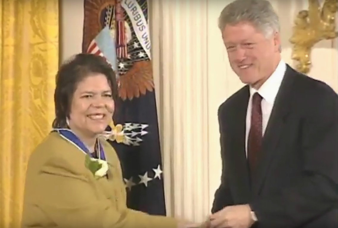 Photo of Wilma Mankiller and President Clinton as she is awarded the Presidential Medal of Freedom in 1998